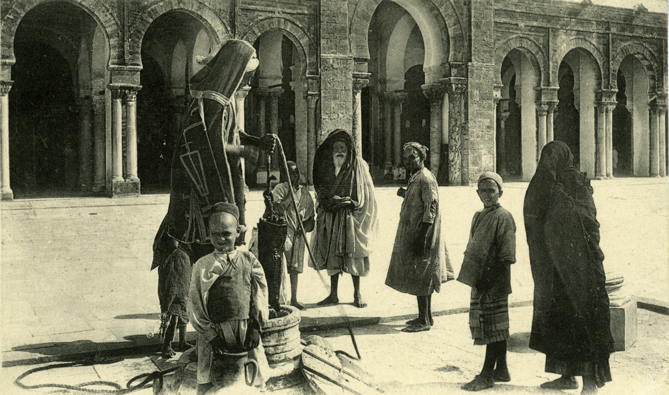 Water wells in the Courtyard of the Great Mosque of Kairouan, Tunisia. Postcard from 1900.